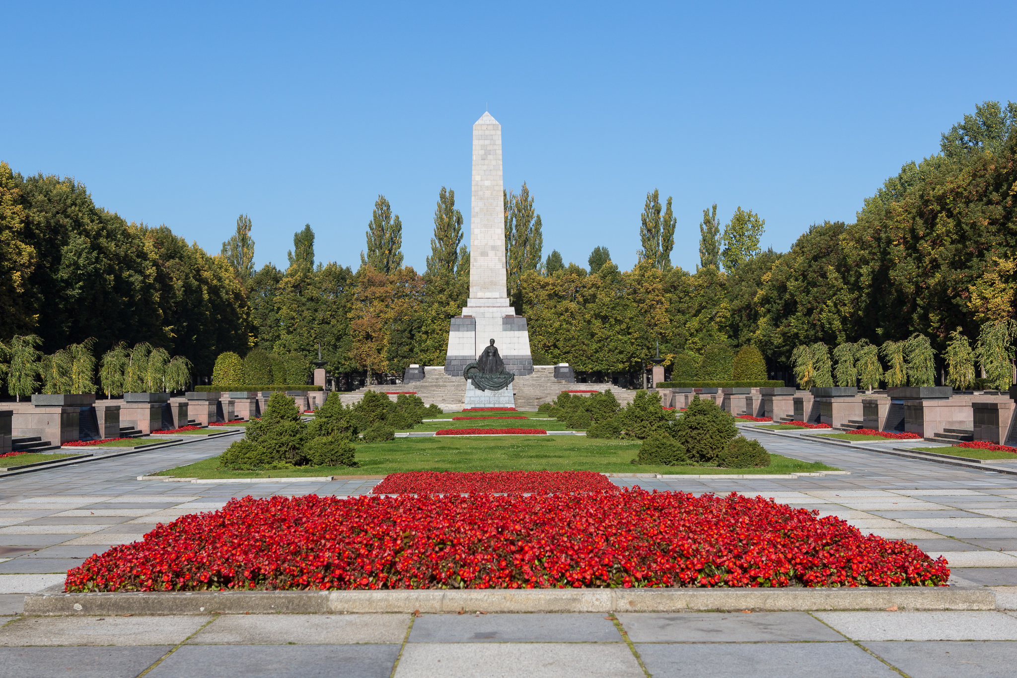 Soviet Cenotaph in Berlin (Schönholzer Heide)